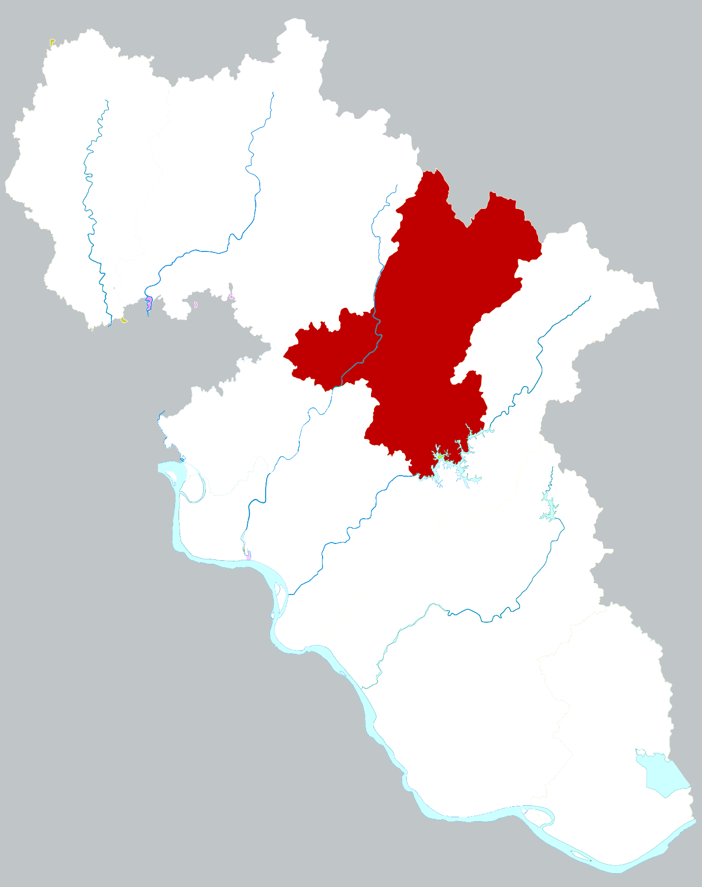 Location of Luotian county in Huanggang city, China